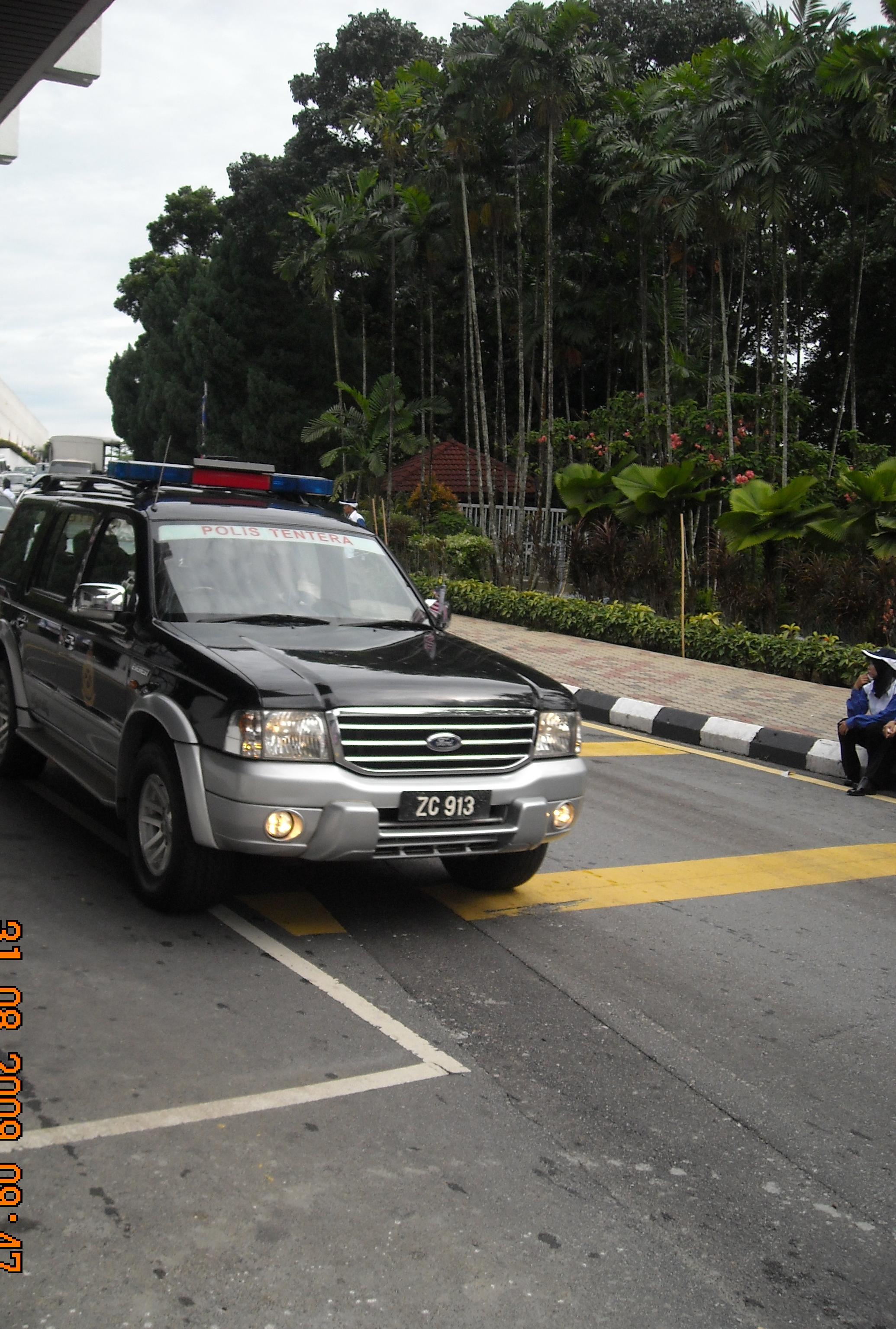 The Royal Military Police Corps also using the Ford Explorer patrol vehicle, going to the exit gate after the 52nd Independence Day Parade at Parliament Square, Parliament Road, Kuala Lumpur.